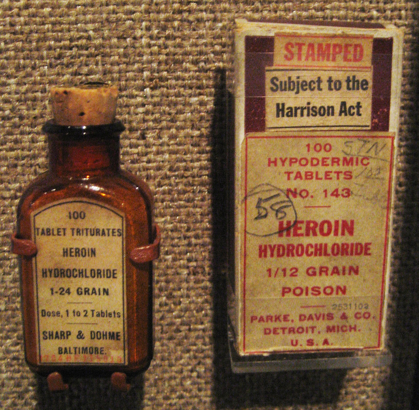 Commercially marketed Heroin containers from the early 20th century. Bottle on left; box on right. The box has a "Harrison Act" tax stamp, indicating a date of 1914 or shortly after. Photographed from display at the Old Mint Museum, New Orleans.